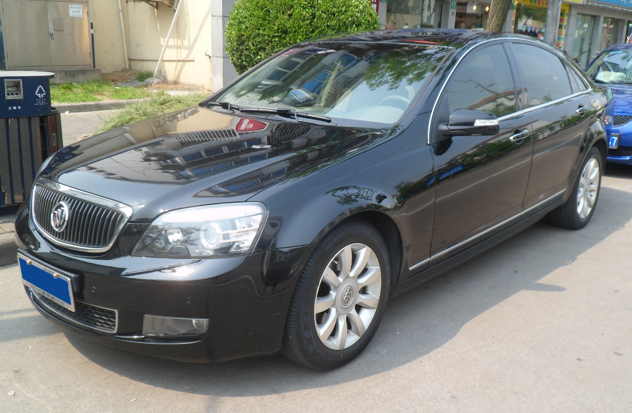 Buick Park Avenue CN photographed in Shanghai, China.